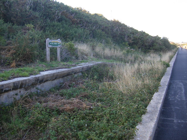 Wyke Regis Halt Part of the dismantled Weymouth to Portland line, now the Rodwell Trail.